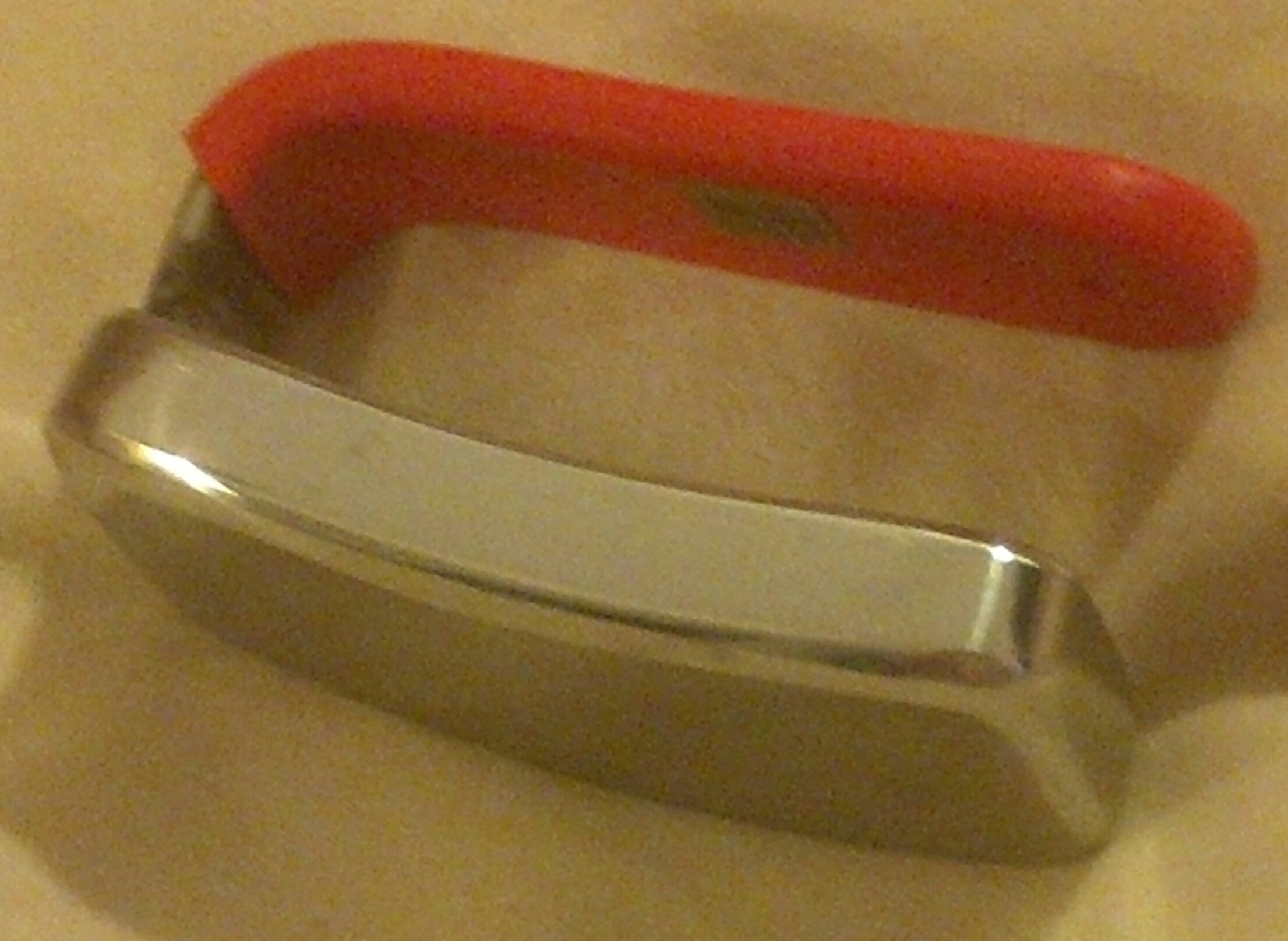 A picture of an enswell as commonly used to minimize swelling between rounds of combat sports.